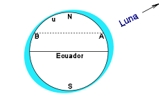 Position of tidal bulges due to moon declinaison. 2007